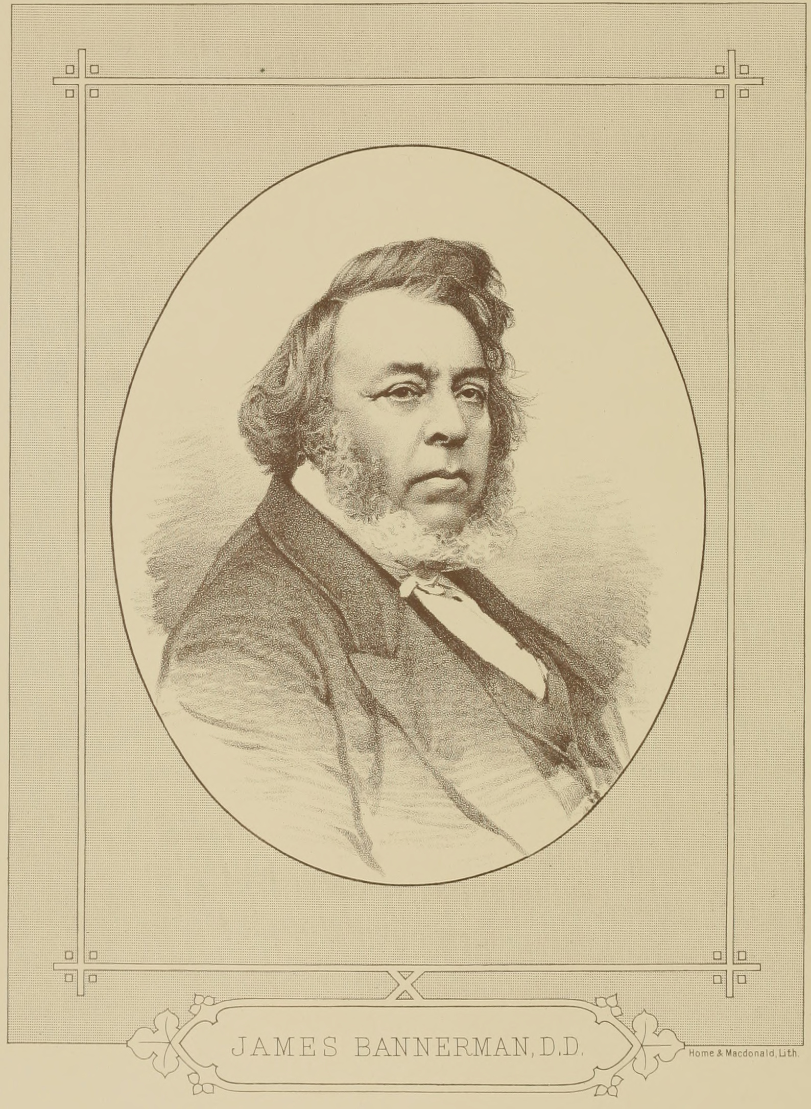 James Bannerman from Disruption Worthies lithograph by Home & Macdonald